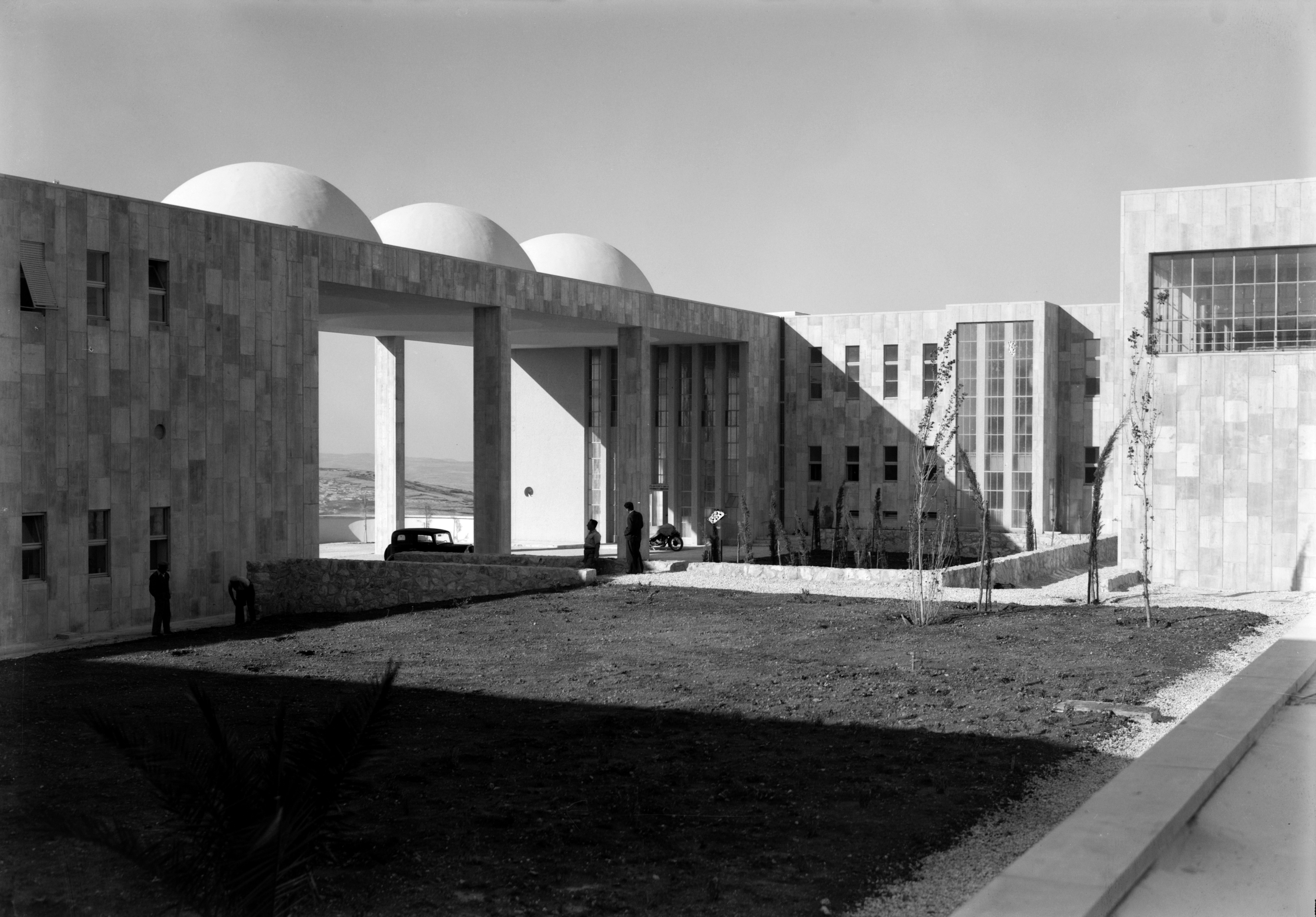 Hadassah University Hospital, Mt. Scopus, Jerusalem - Israel. Modernist building designed by Erich Mendelsohn.